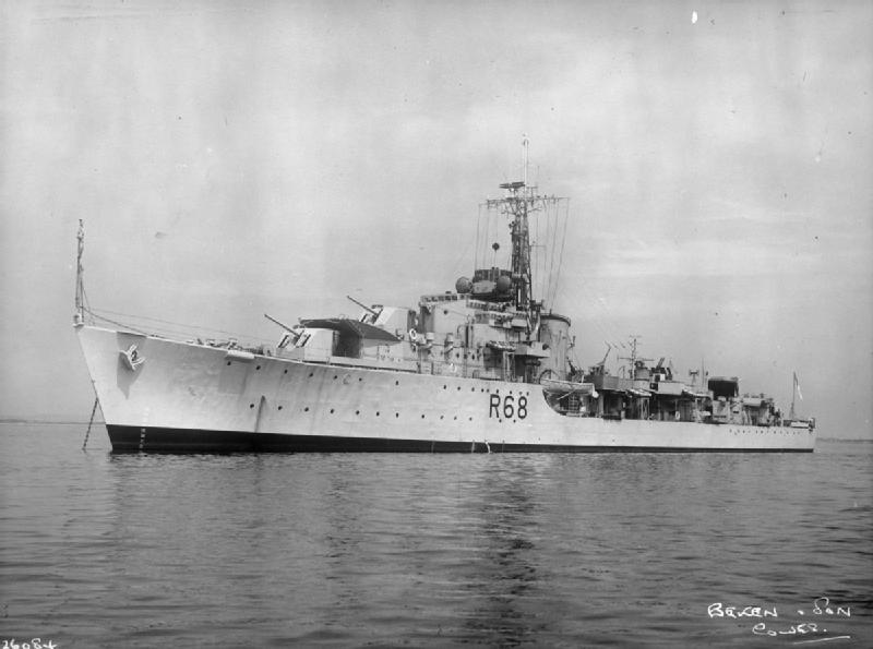 Photograph of British C class destroyer HMS Crispin.